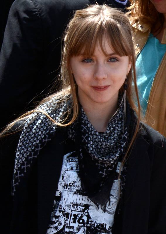 Melusine Mayance at the Cannes Film Festival